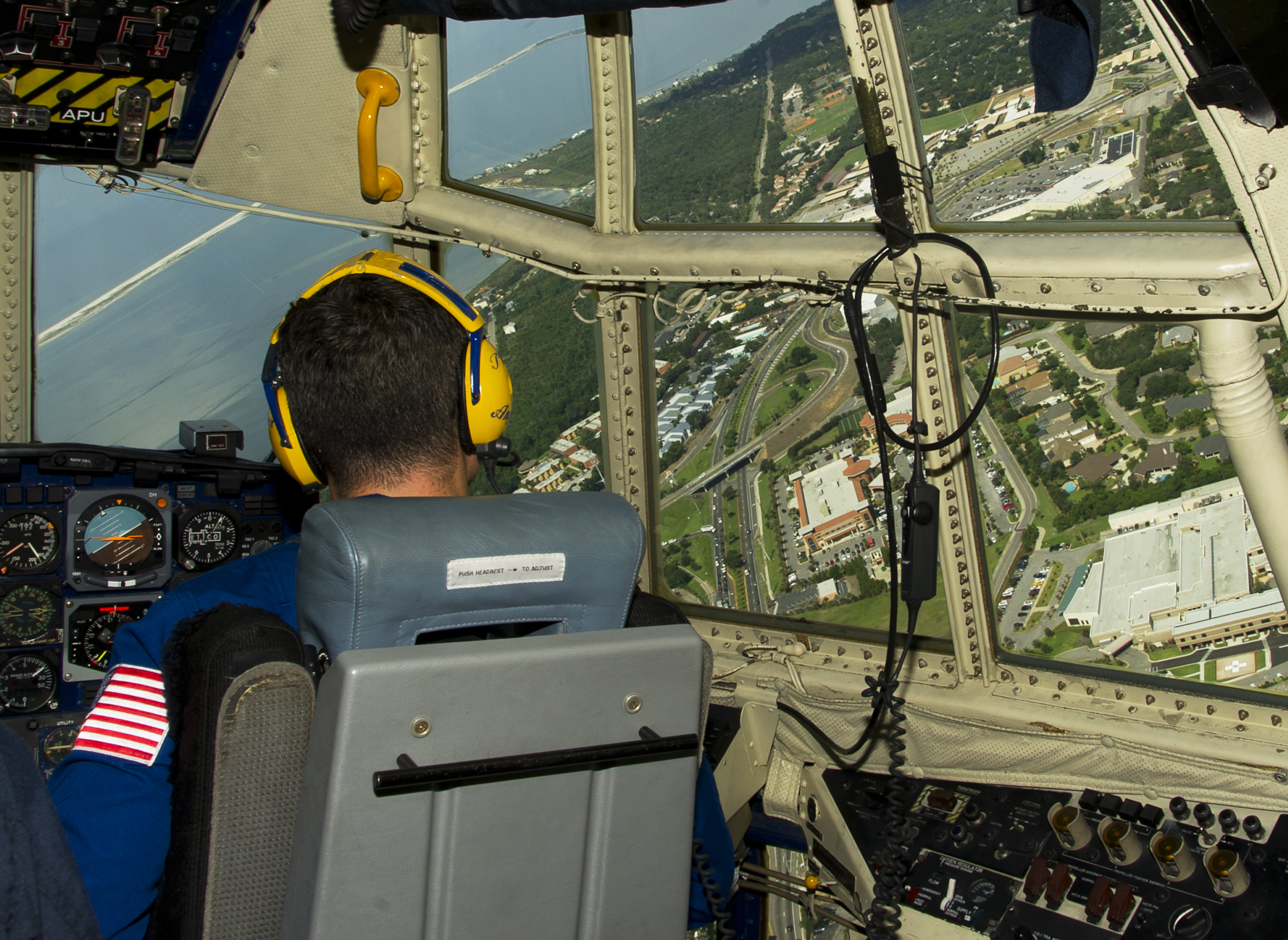 PENSACOLA, Fla., (July 6, 2011) Marine Capt. Benjamin Blanton, from Ventura County, Calif., pilot of Fat Albert, the C-130 Hercules transport aircraft of the U.S. Navy flight demonstration squadron, the Blue Angels, looks over Naval Air Station Pensacola while flying in preparation for the 2011 Pensacola Beach Air Show scheduled for July 9. Fat Albert opens each Blue Angels performance, demonstrating the flight capabilities of the C-130. (U.S. Navy photo by Mass Communication Specialist 3rd Class Andrew Johnson/Released)